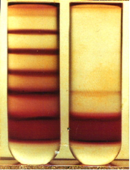 Gradient centrifugation of infected Red Blood Cells. Infected cells are shown on the left, separated on a discontinuous gradient of increasing percoll concentrations. Different stages in the intraerythrocytic cycle of the parasite separate at different steps in the gradient.